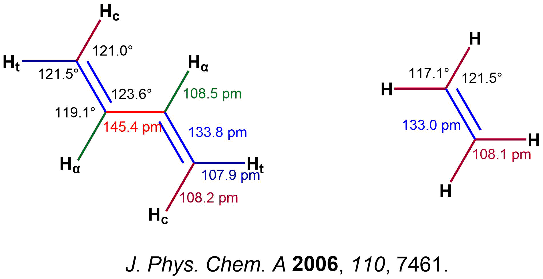 The structural parameters of butadiene and ethylene for comparison.